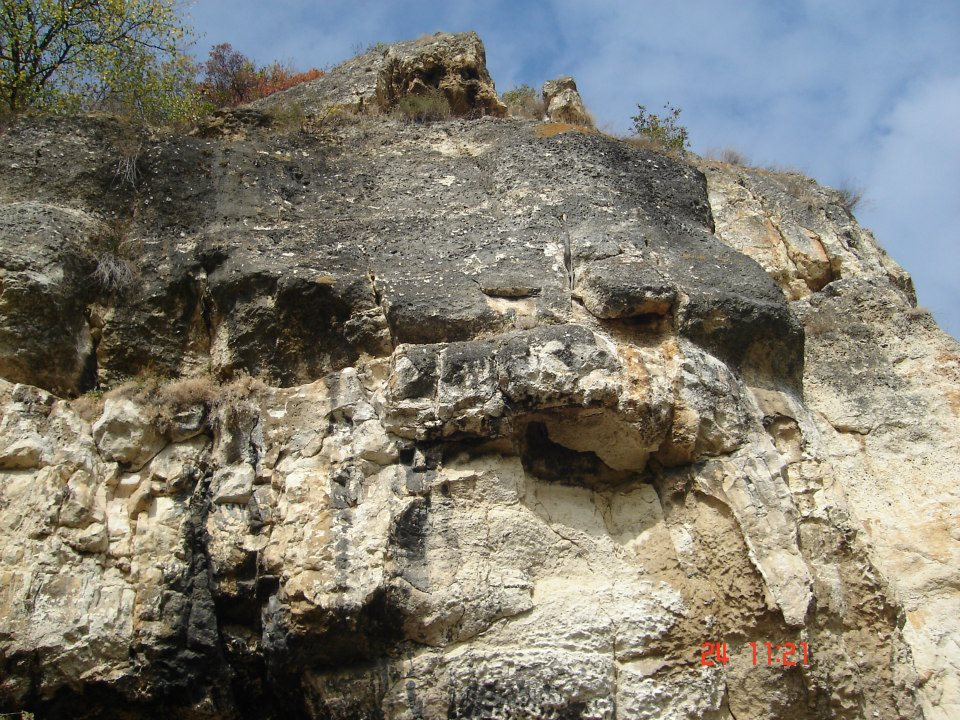 Rock formation near Krivnya